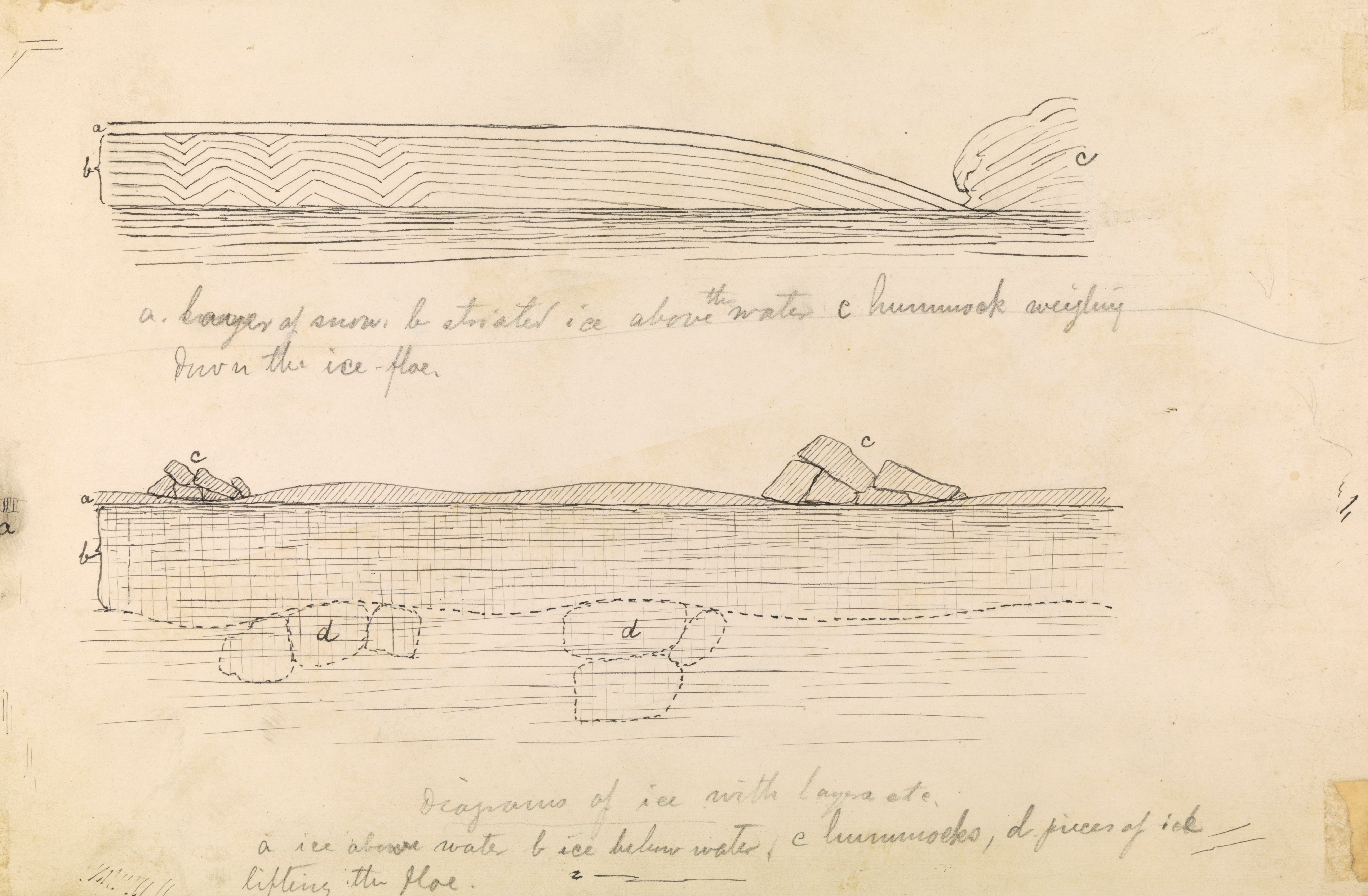 Pen and ink drawing. Uppermost: Section of the drift ice in the Arctic Ocean. Text under the picture: «a) layer of snow b) ice; to the right heavy pack ice that c) presses the floe down. Below: Section of the ice and the making of a bend a) ice above water b) ice under water c) pack ice (heavy ice blocks) d) pieces of ice under the floe». One of the pictures from the expedition with arctic ship toward the North Pole in the period June 24, 1893 to August 13, 1896. According to the plan, the ship was to drift in the ice with the ocean current from the coast of Siberia across the North Pole to Greenland. The goal, to get to the North Pole, was not reached, but the scientific evidence gathered was of great importance to arctic research.